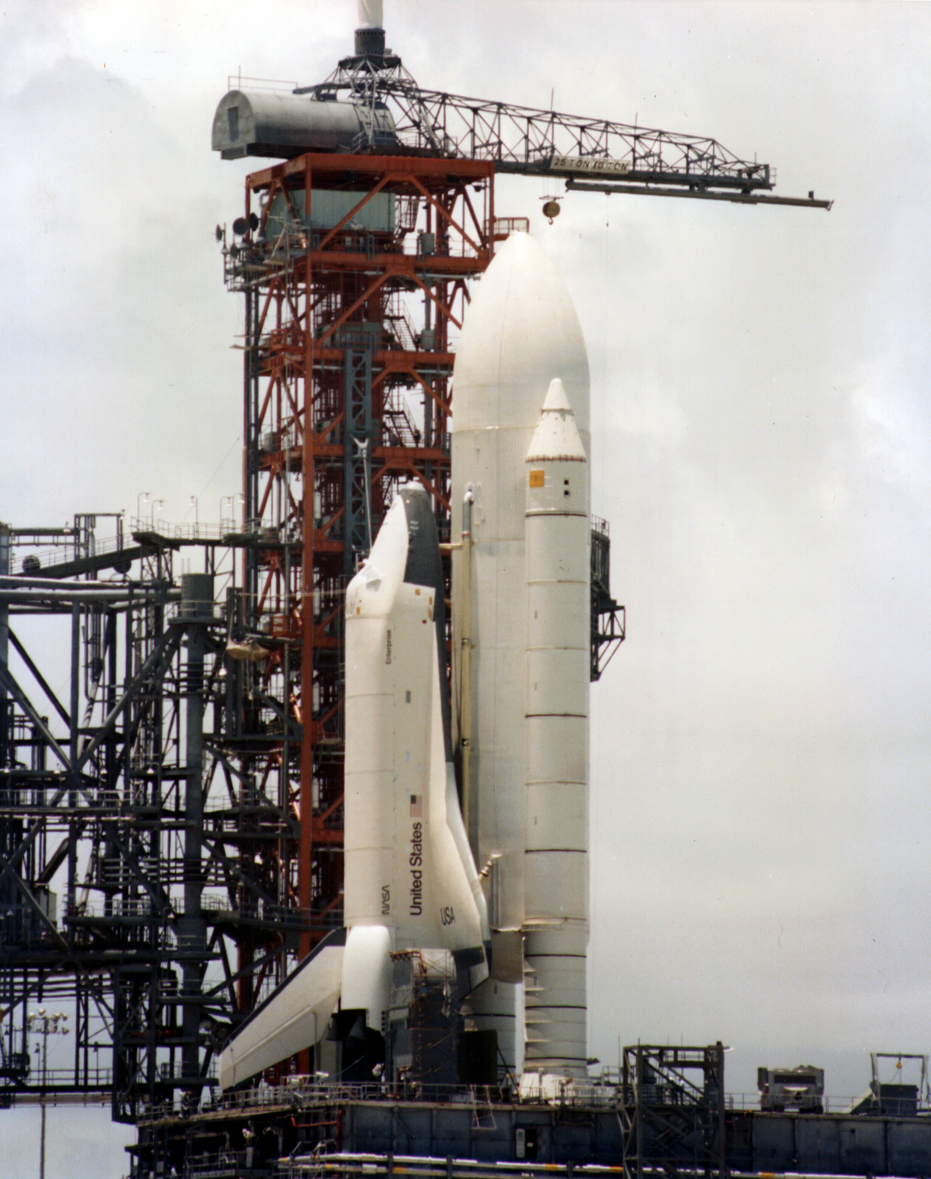 Shuttle Enterprise at Kennedy Space Center Launch Complex 39A. Note that the tower is still in Apollo configuration